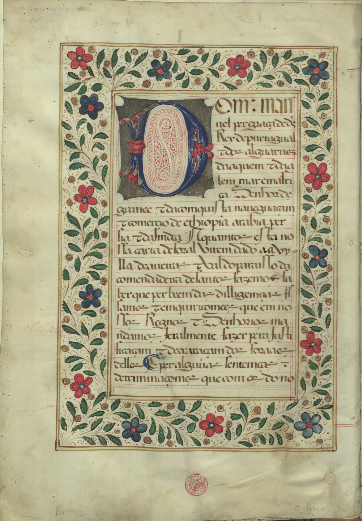 Town Charter of Aveiras de Cima and Vale do Paraíso, dated 13 September 1513.